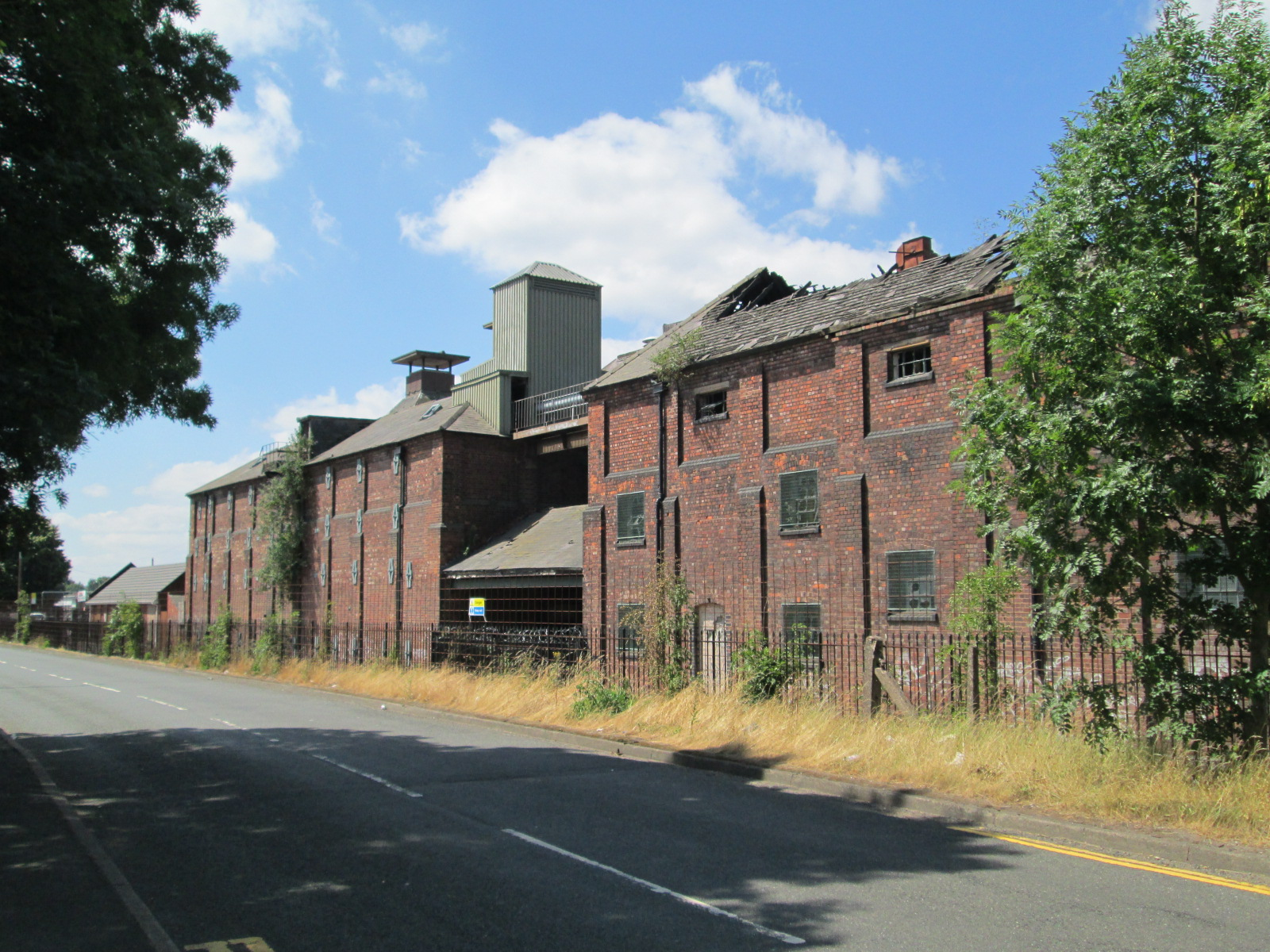 Langley Maltings, in Langley, Sandwell, West Midlands. Viewed from Western Road.